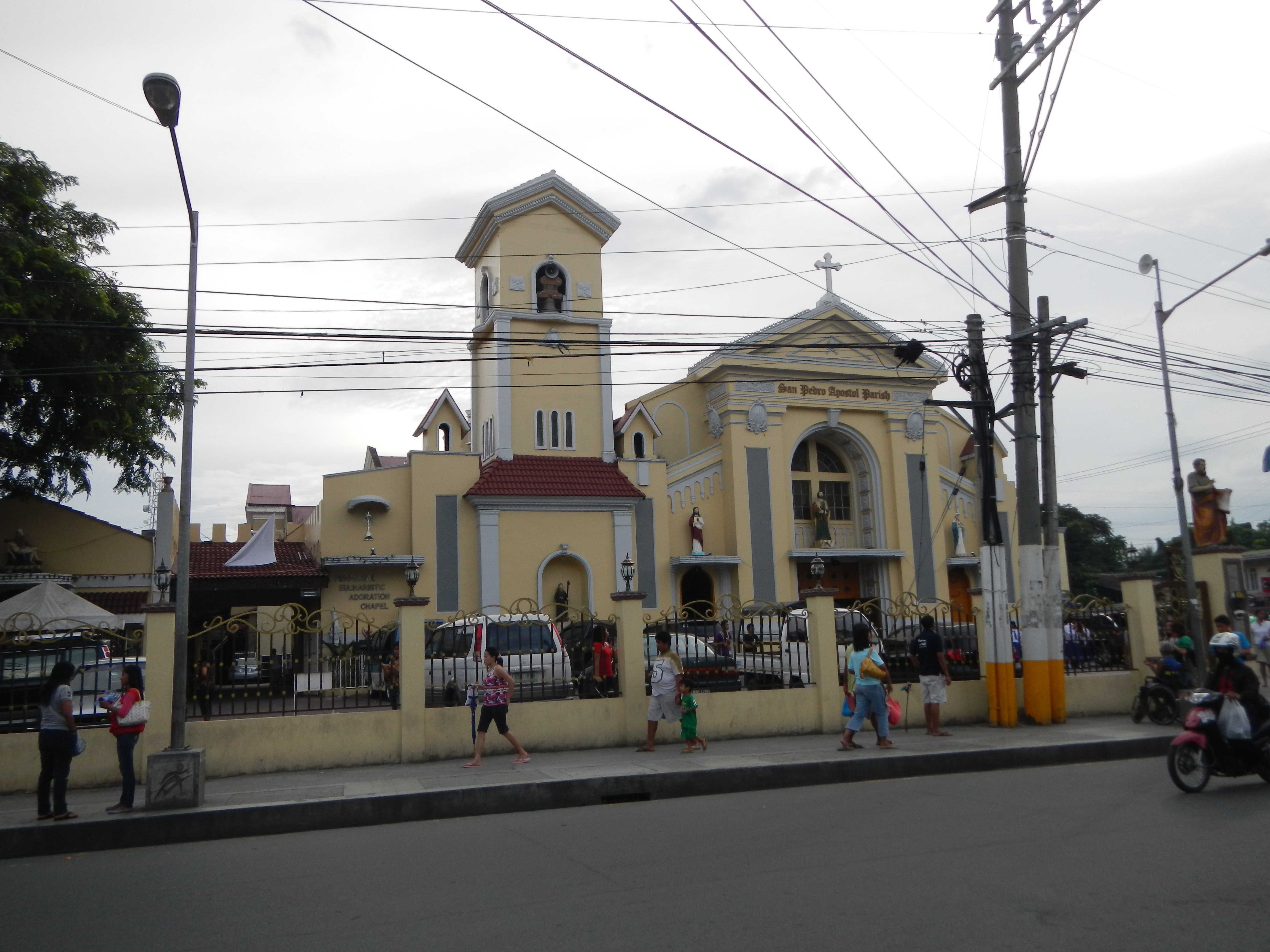 San Pedro Apostol Parish Church of San Pedro, Poblacion, San Pedro, 4023 Laguna [1] [2] Coordinates: 14°21'48"N 121°3'22"E [3] [4][5] - it belongs to the Roman Catholic Diocese of San Pablo [6] - Episcopal District I - Vicariate of San Pedro Apostol Episcopal Vicar: Msgr. Jose D. Barrion, PC Vicar Forane: Father Mario P. Rivera Feast day: February 22 Parish Priest: Father John F. Tabot. [7] [8] [9] [10] [11] The Future “Shrine City” of Southern Tagalog (San Pedro Tunasán, La Laguna) Thousands flock to ‘Lolo Uweng’ for healing, jobs --- San Pedro, Laguna [12] San Pedro City, or officially known as the City of San Pedro (Filipino: Lungsod ng San Pedro) is a first class city in the province of Laguna, Philippines is Laguna's gateway to Metro Manila, the latest census, it has a population of 294,310 inhabitants.